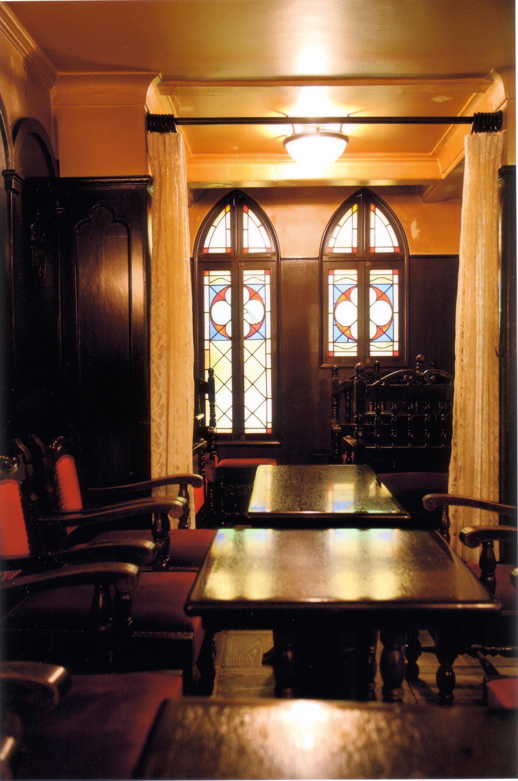 Staind glass of Salon de thé François